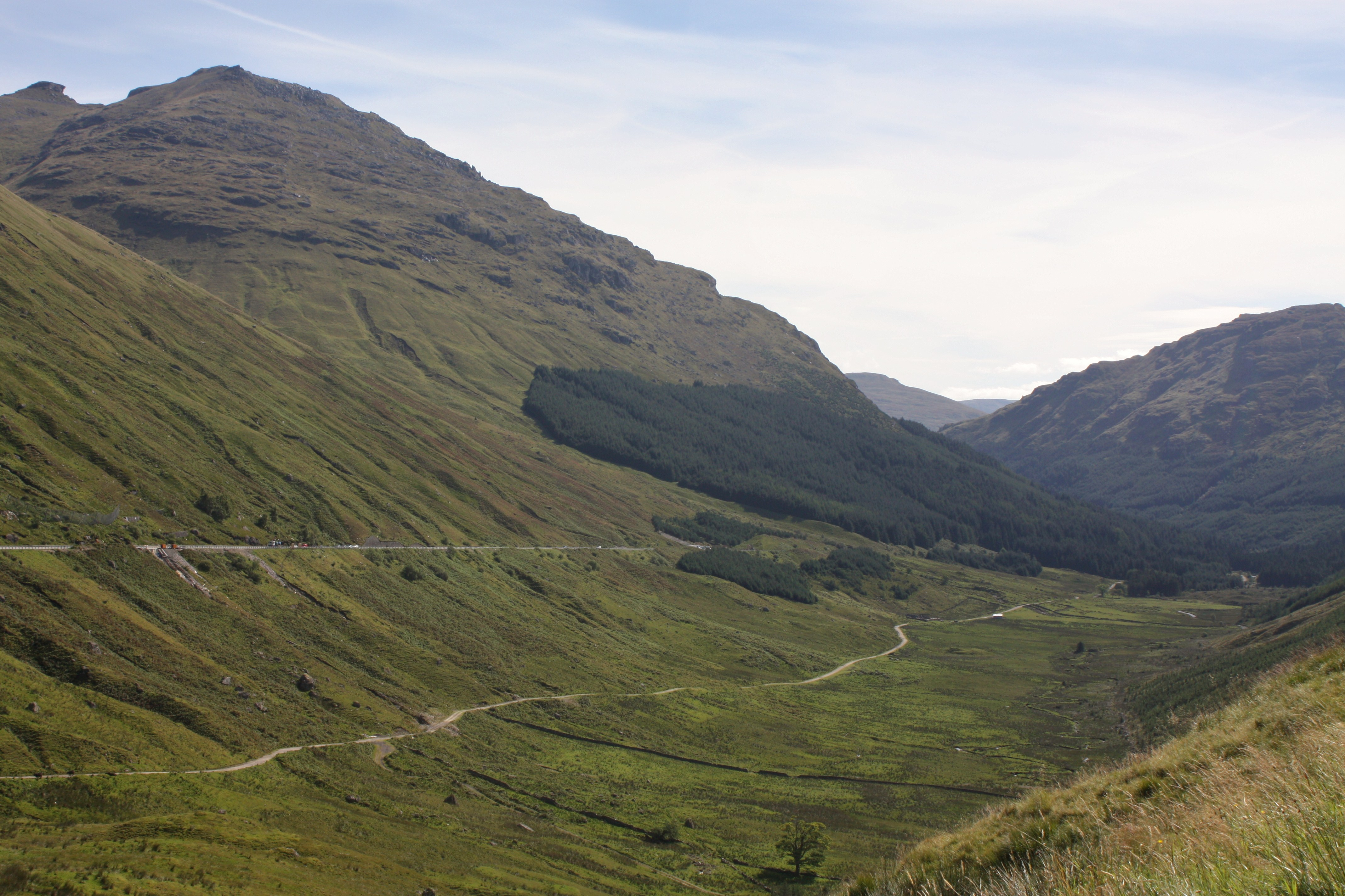 Argyll Forest Park, in Loch Lomond and The Trossachs National Park, Scotland.